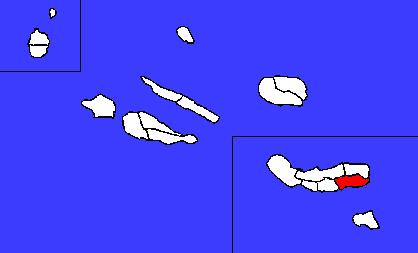 Location of the Portuguese municipality of Povoação within the Azores archipelago. Made by Afonso Silva.